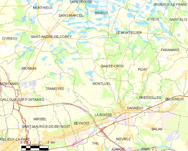 Map of French commune: Montluel Map commune FR insee code 01262.png